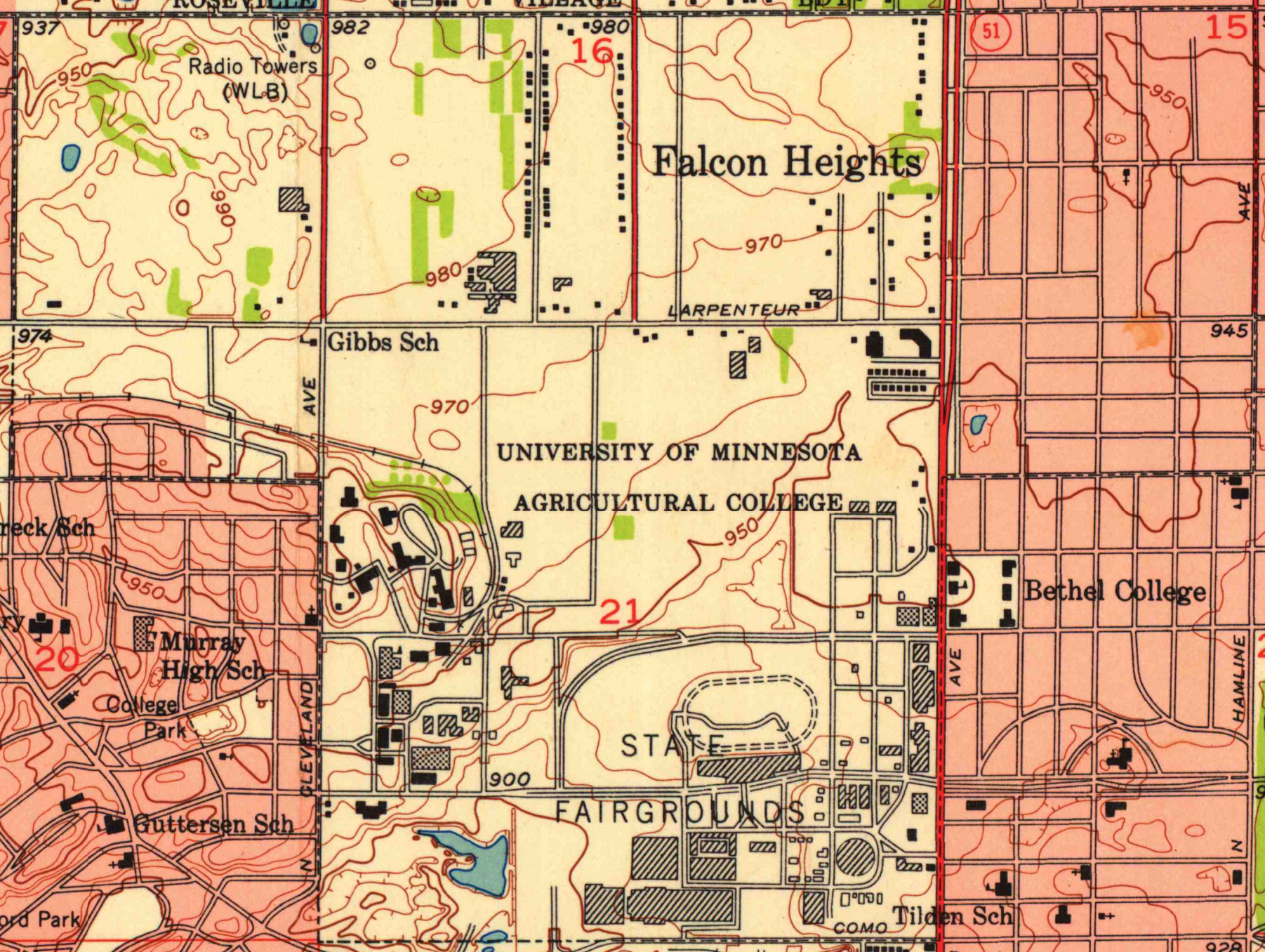 USGS 1:24000-scale Quadrangle for St. Paul West, MN 1951